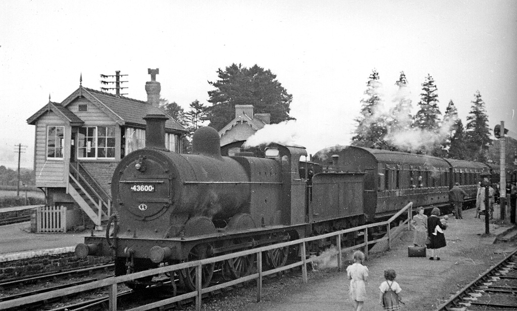 Three Cocks Junction Station, with Hereford - Brecon train. View NE, towards Hereford to the right by the ex-Midland line; ahead to the left the ex-Cambrian Mid-Wales Line joined from Moat Lane Junction via Builth Wells and both continued to Brecon - to the left. The train from Hereford is headed by ex-Midland 3F 0-6-0 No. 43600.